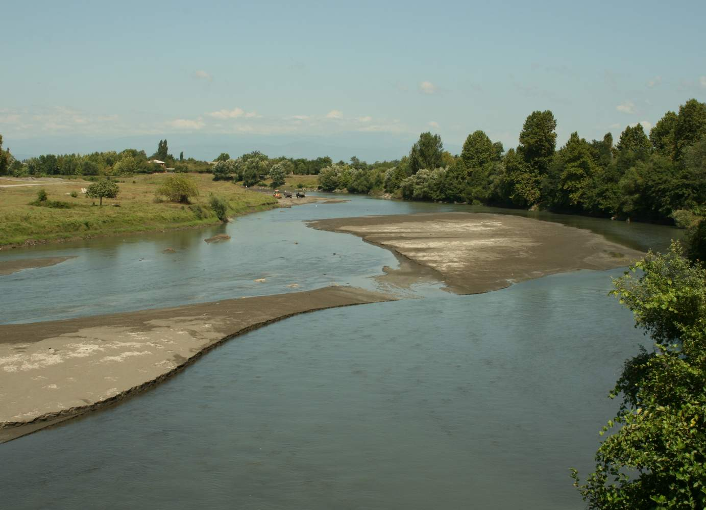 River Tskhenis-Tskali, boundary between Samegrelo (left) and Imereti (right)